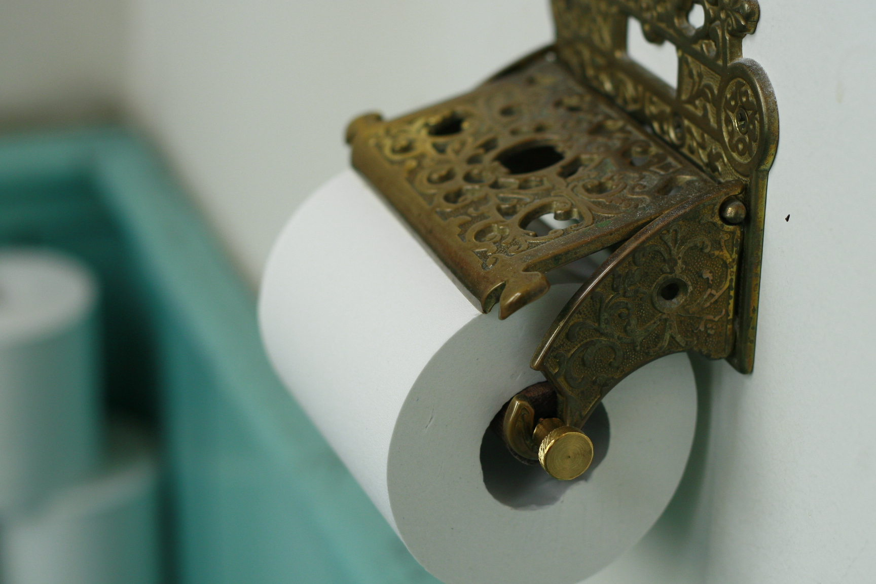 Toilet paper roll